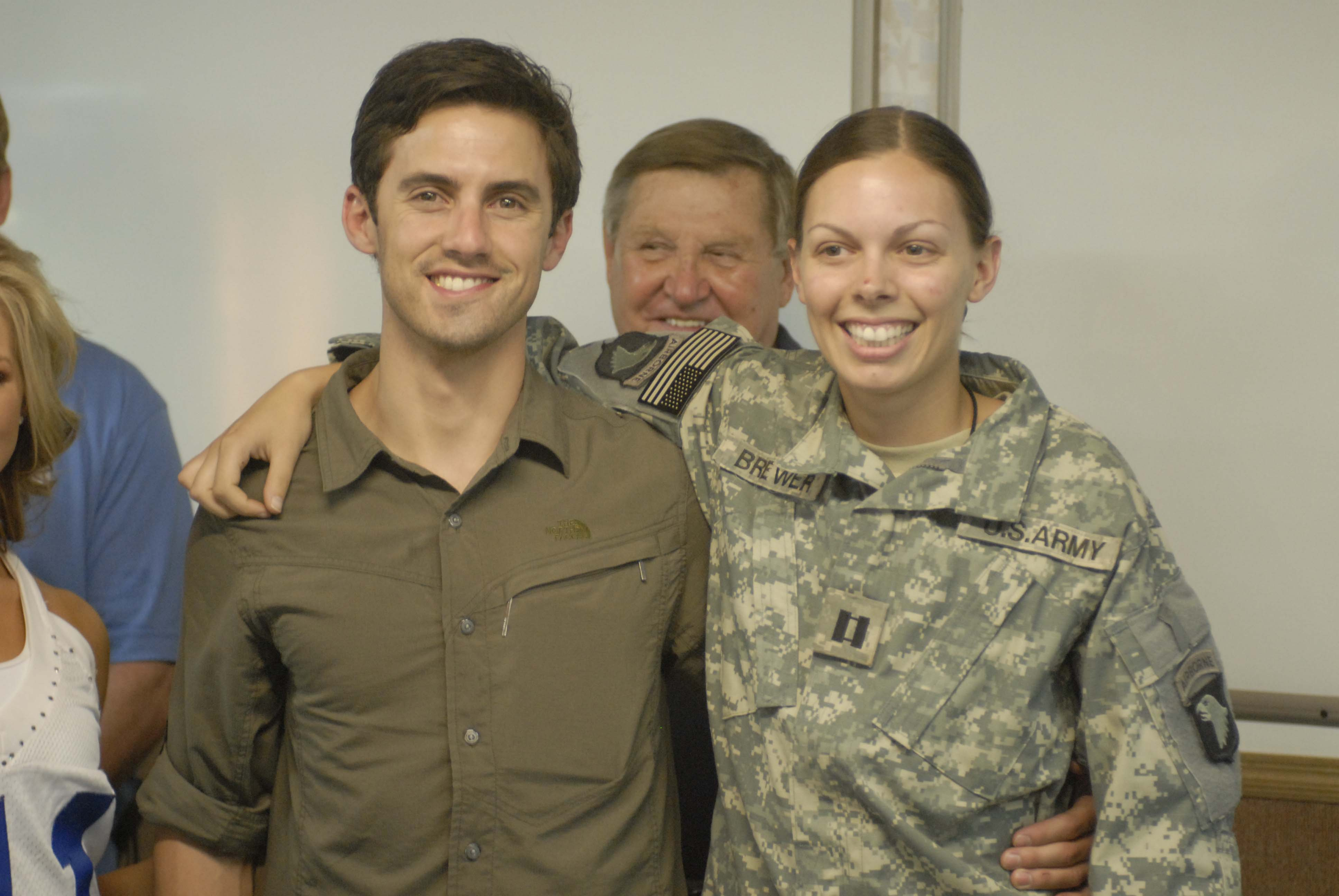 Capt. Holly Brewer, Headquarters and Headquarters Company, 3rd BCT, 101st Abn. Div. (AASLT), poses for a picture with Milo Ventimiglia, star of the television show “Heroes,” during an USO trip at Camp Striker, Iraq, on July 8.